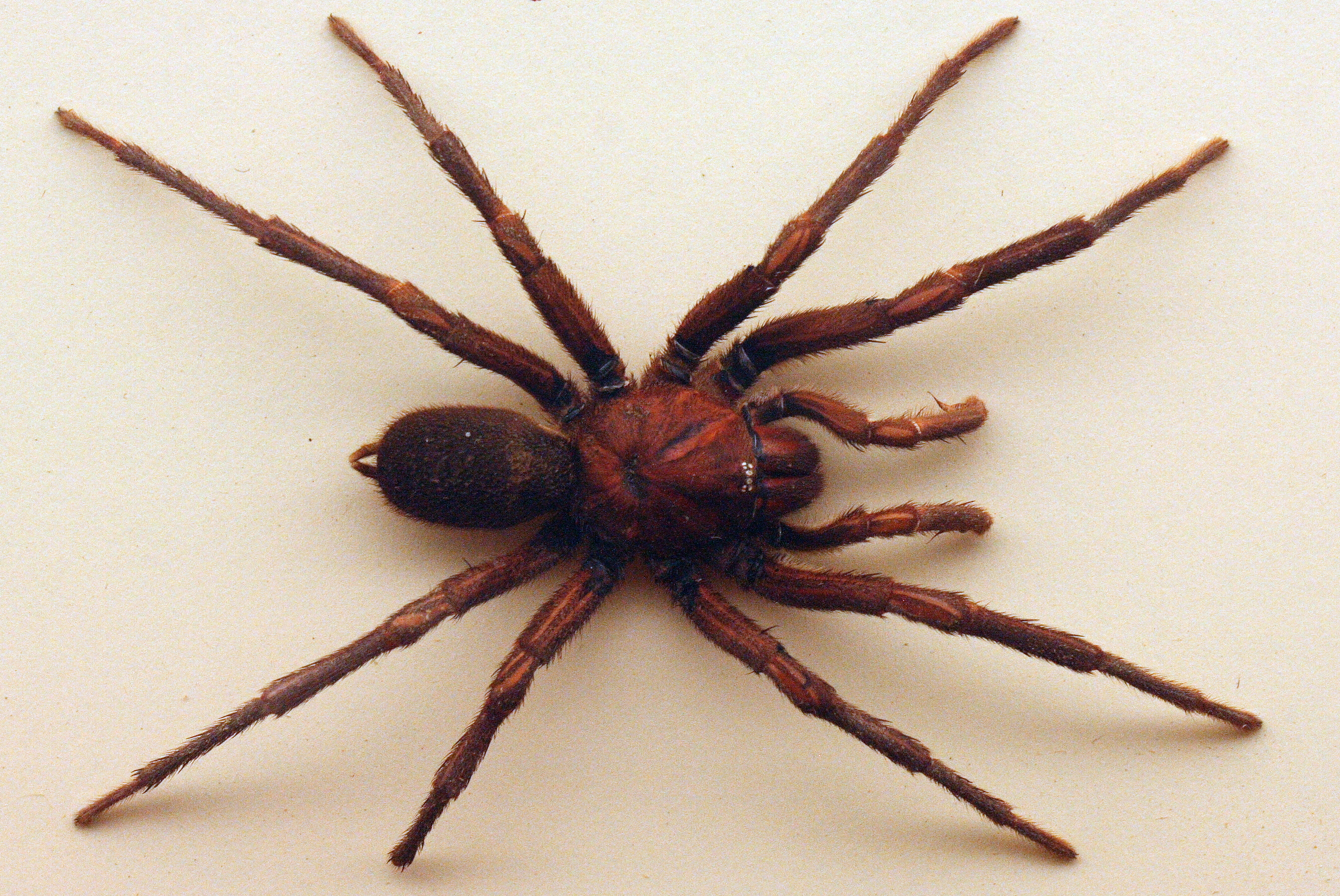 Specimen in the Australian Museum spider display.